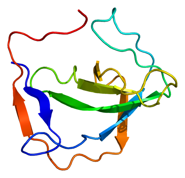 Structure of the MIA protein. Based on PyMOL rendering of PDB 1hjd.